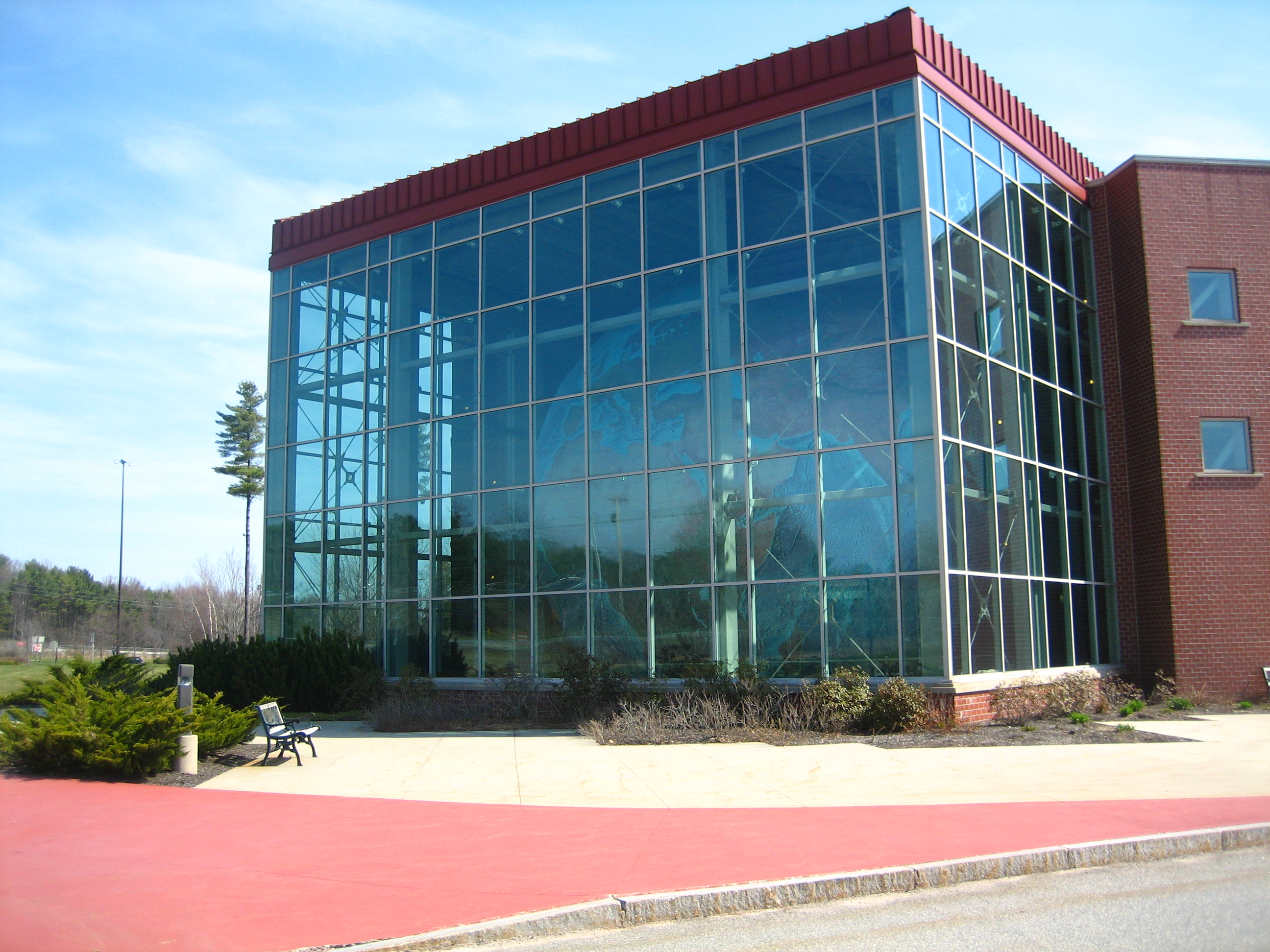 Eartha's home, the world's largest rotating and revolving globe in Yarmouth, Maine, USA (... we saw this from rt. 1 and, "pull over!")